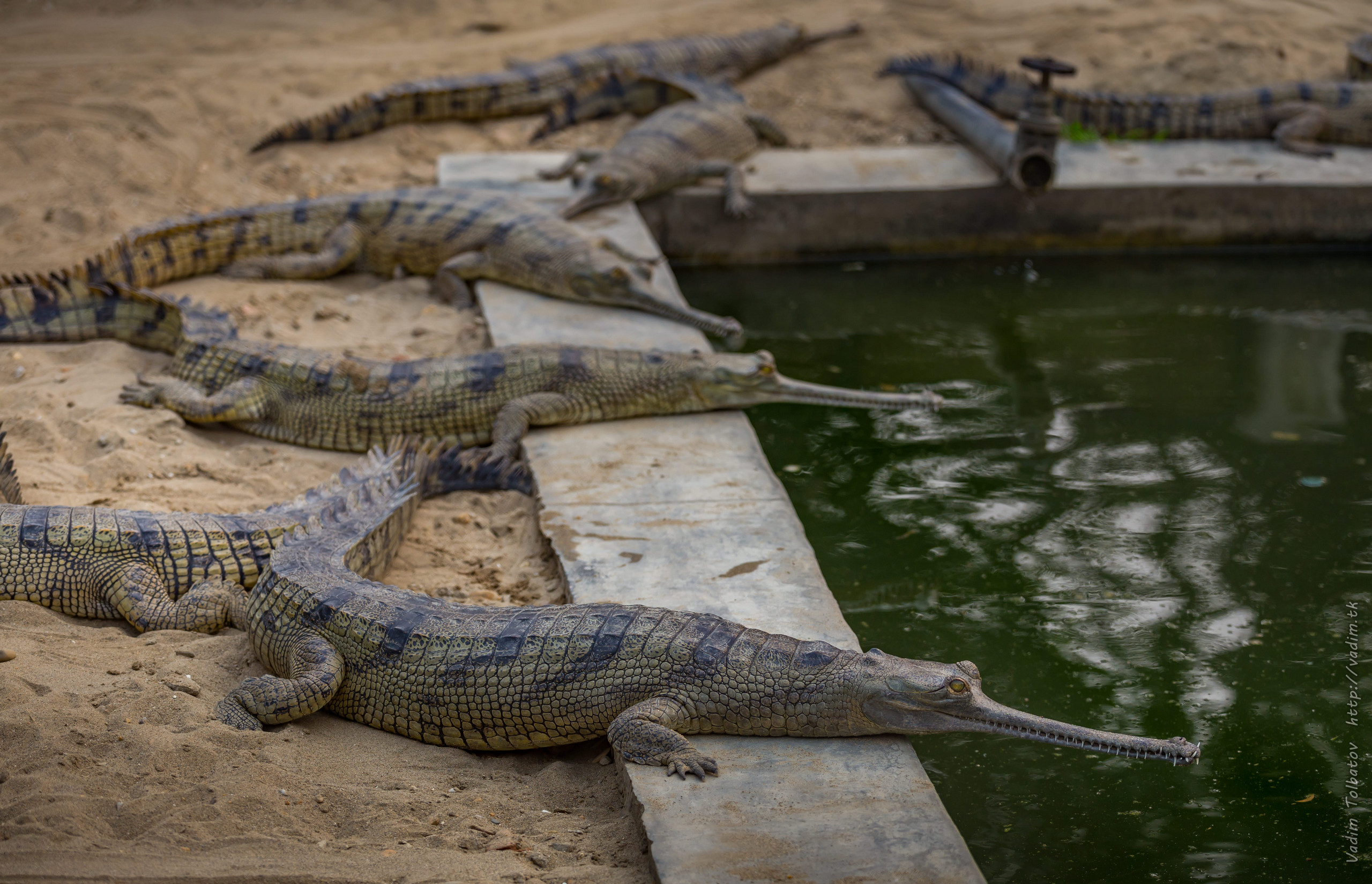 Young gharials in Chitwan National park, Nepal